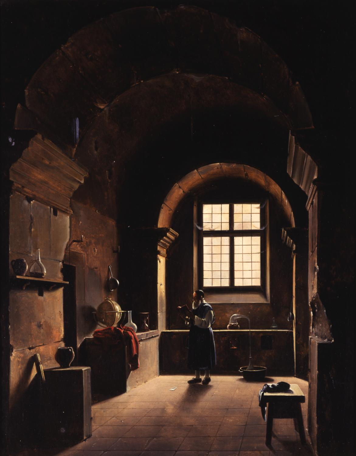 The Alchemist stands in a largely empty barrel-vaulted room, lit from a window on the center of the end wall. He stands alone, reading a small book. He is dwarfed by the size of the room, almost lost against the background. His dress suggests some earlier, if indeterminate, time period. The light from the window casts the alchemist and various equipment in the room into silhouette. The high vaulted ceiling and details of the room are chipped, cracked, and faded. Cobwebs and dust are visible. The room has three chimneyless hearths, only one of which is in use. The room contains only a few isolated pieces of equipment: a globe, glassware, red cloth. The retort below the window is a reflection of the painter's imagination rather than an accurate representation of a scientific apparatus.